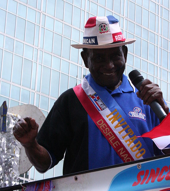 adjusted version of Image:Joseito_Mateo.jpg